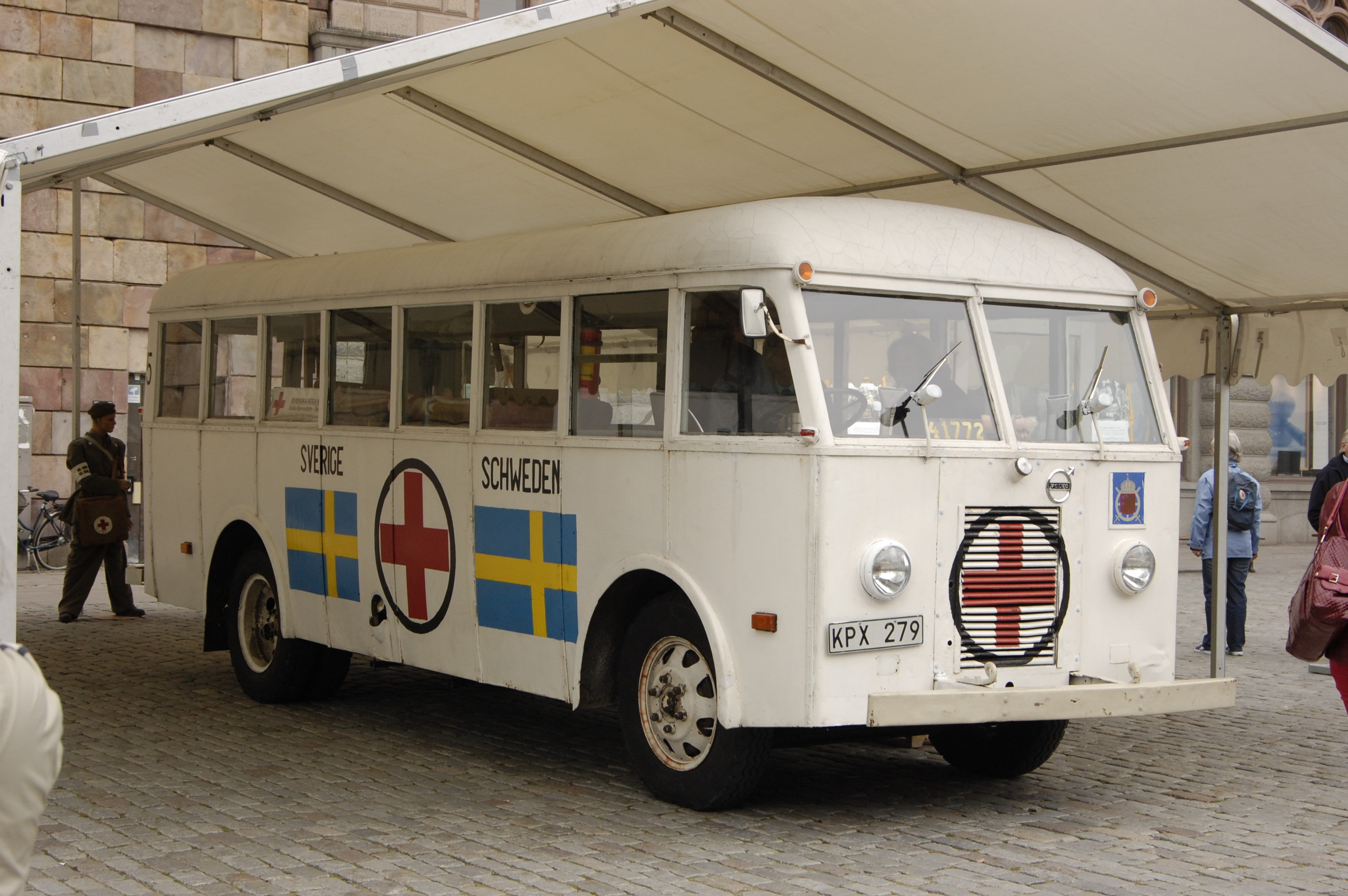 One of the original White Buses, kept driveable in original condition